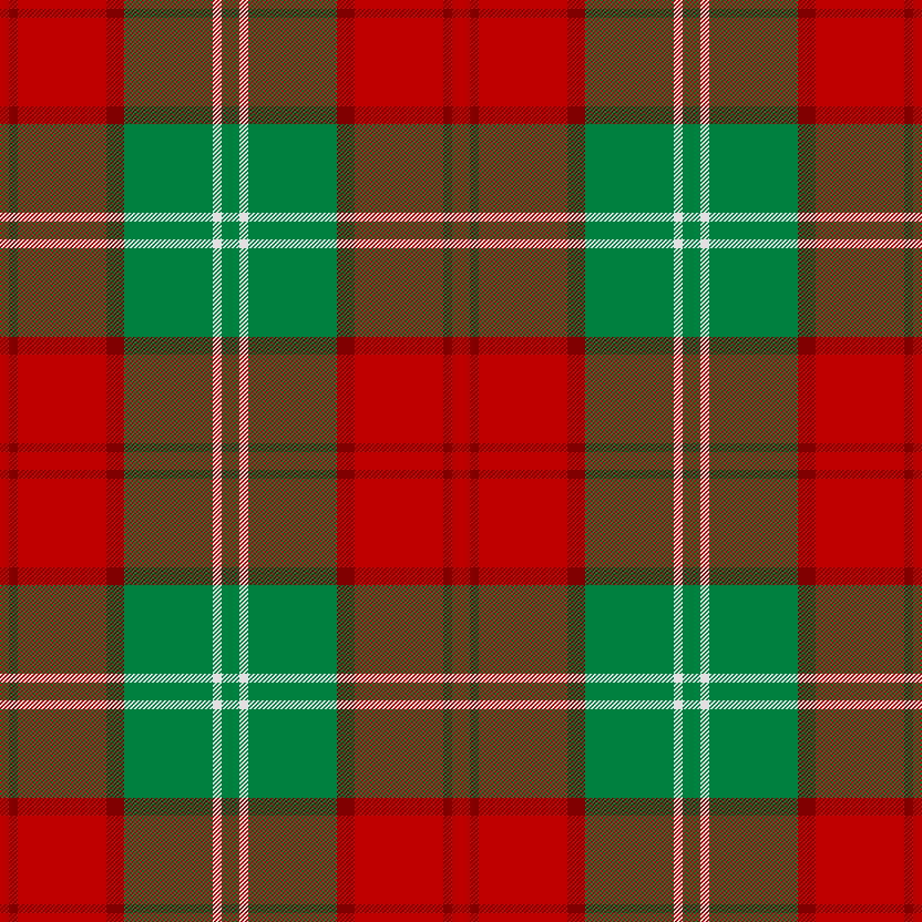 The Lennox District tartan was reproduced from two known copies of a lost portrait dating from the sixteenth century, which was claimed to be of the Countess of Lennox (mother of Henry Darnley who married Mary Stuart). The tartan was reproduced by D. W. Stewart in his book Old and Rare Scottish Tartans, published in 1893.